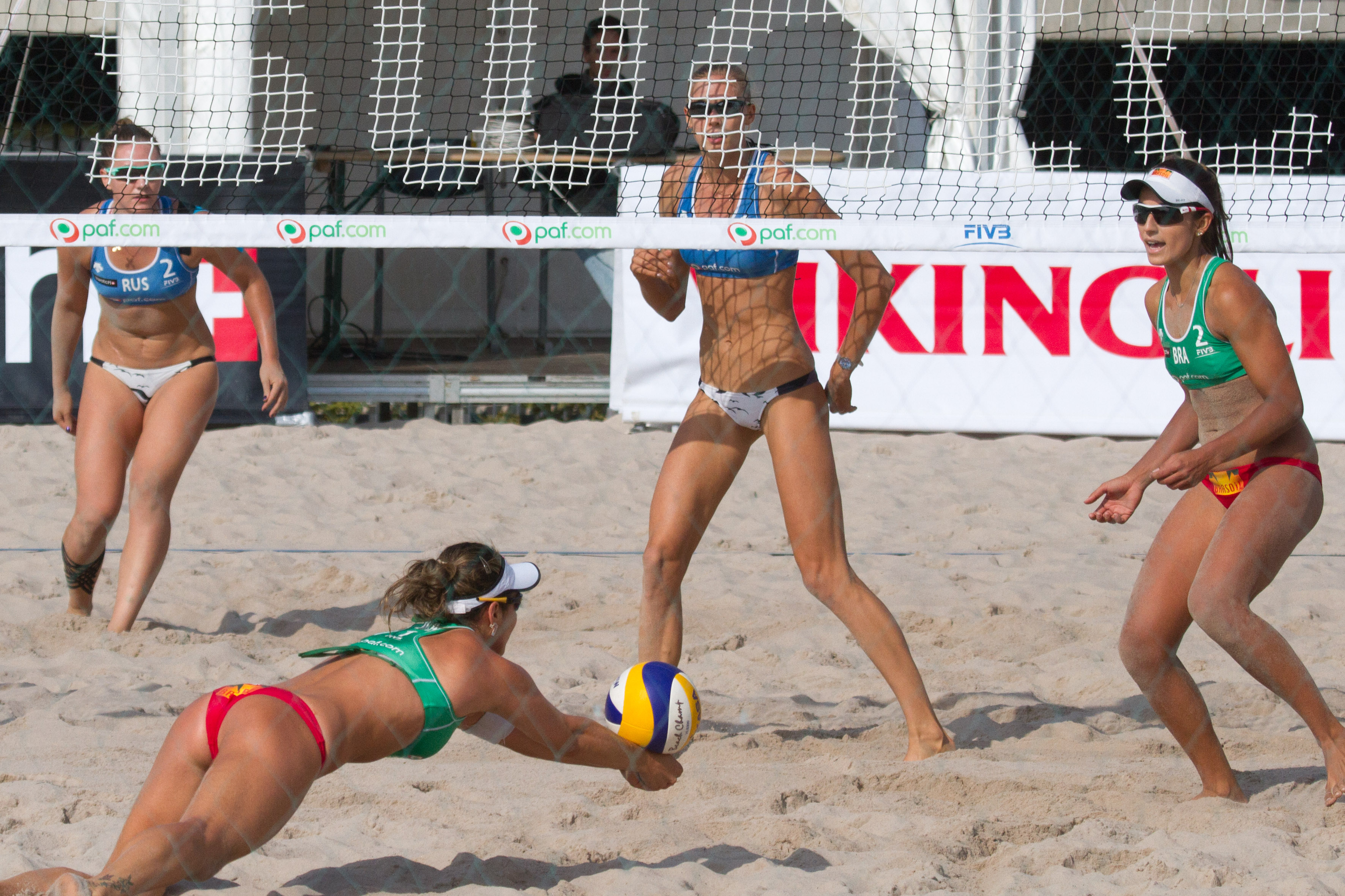 Agatha (1, green) and Seixas (2, green) of Brazil play Vozakova (blue, 2) and Vasina (blue, 1) of Russia on August 30 2012 at the Paf Open in Mariehamn, Åland, Finland. Photograph: Rob Watkins/ This picture is free to use as long as it it credited: Rob Watkins/